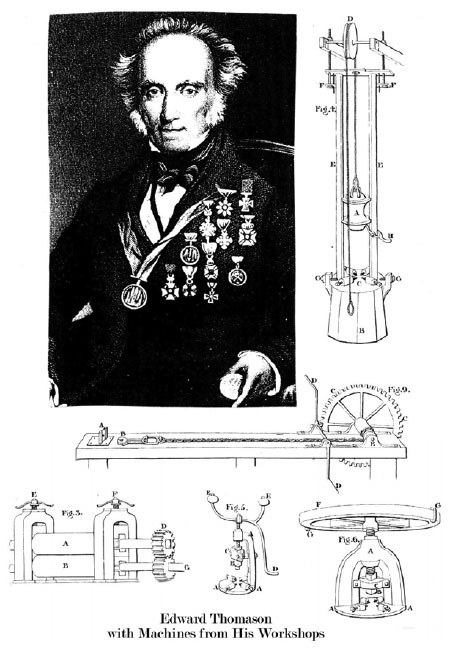 Portrait of the 18th century Birmingham manufacturer Edward Thomason, with illustrations of machines from his workshop